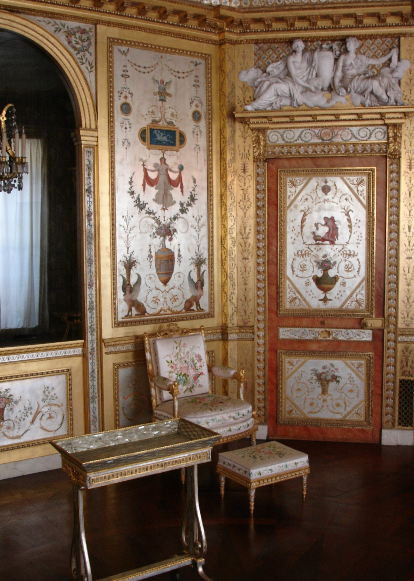 own Work